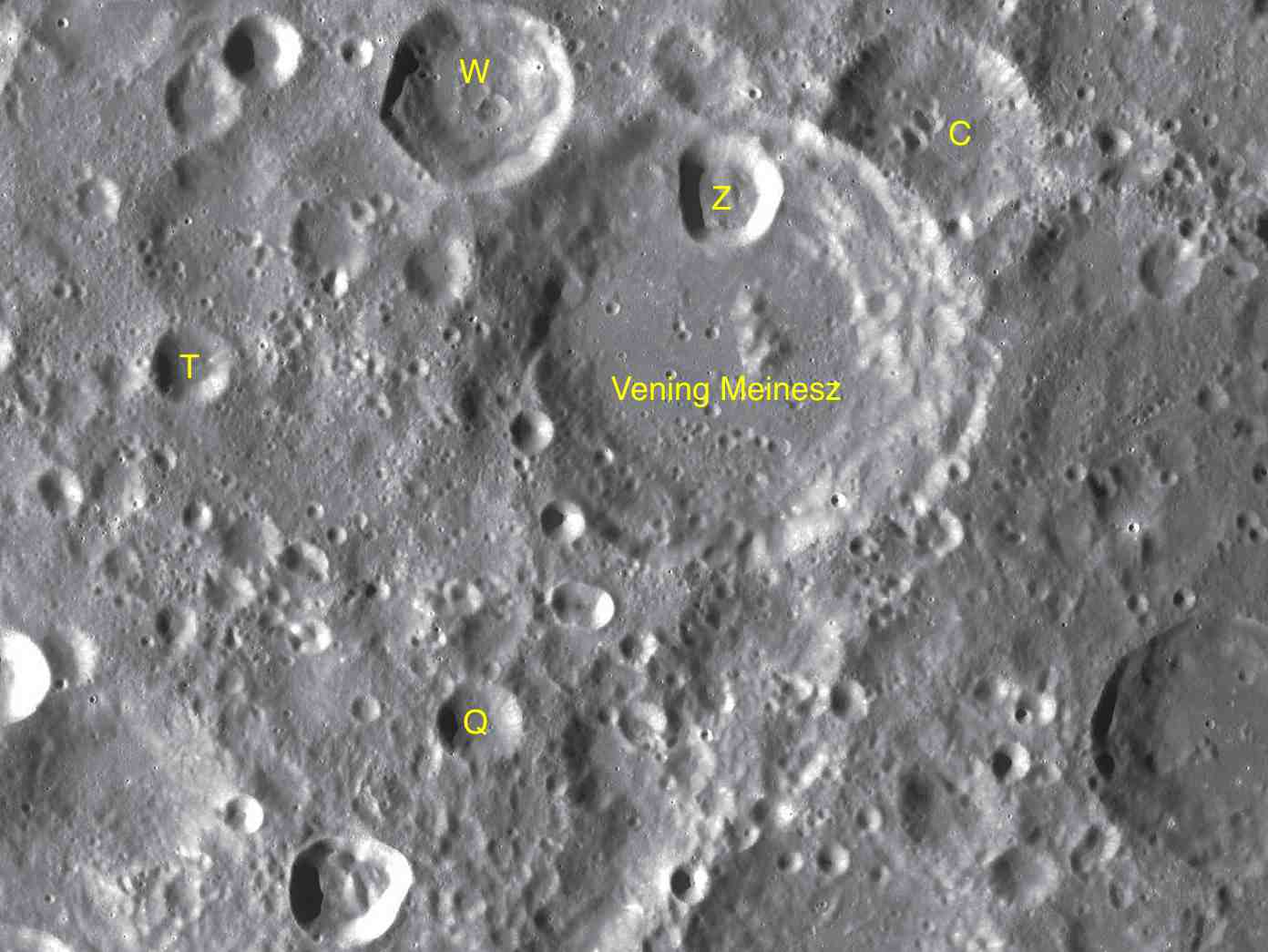 Parts of the charts LAC-67 and LAC-85 used for the presentation